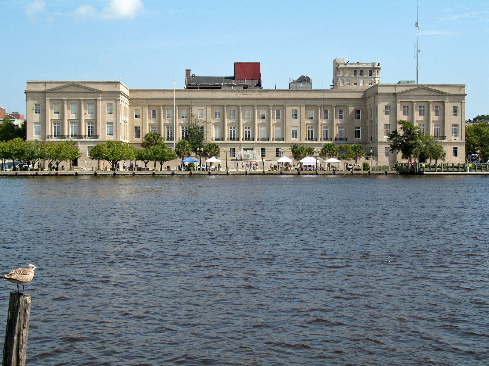 National Register of Historic Places listings in New Hanover County, North Carolina. Alton Lennon Federal Building and Courthouse, North Water St. between Market and Princess St., Wilmington, NC. Photographed September 20, 2009 from the grounds to the south of the USS North Carolina at the east end of State Rd 1442.